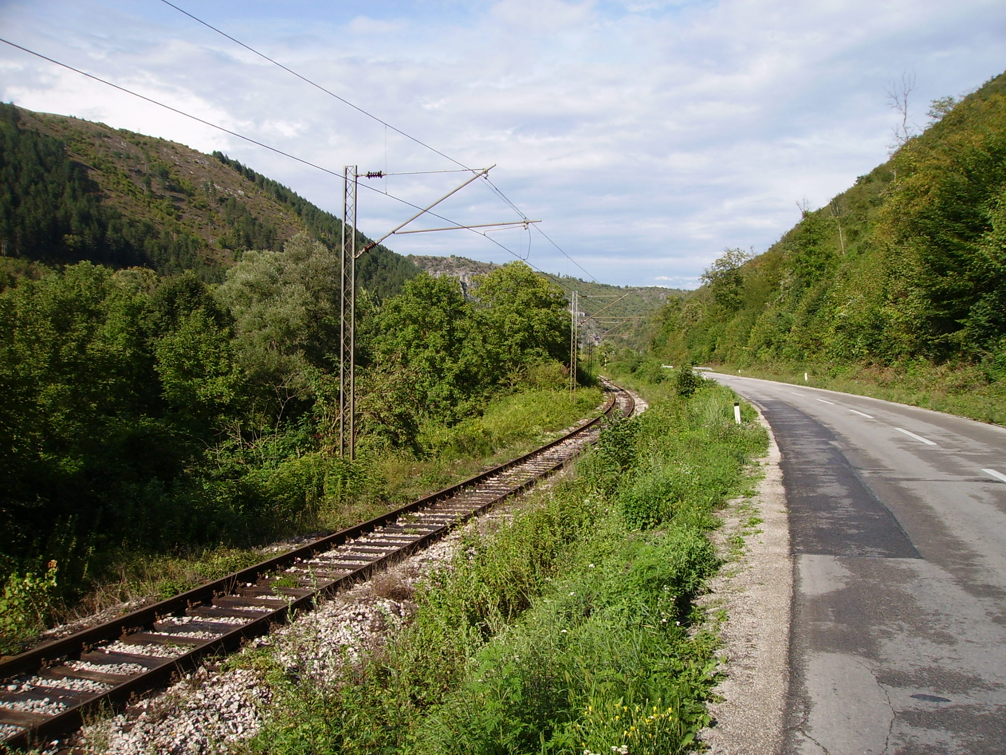 Una Valley Railroad between Bihać and Bosanska Krupa, Bosnia and Herzegovina.